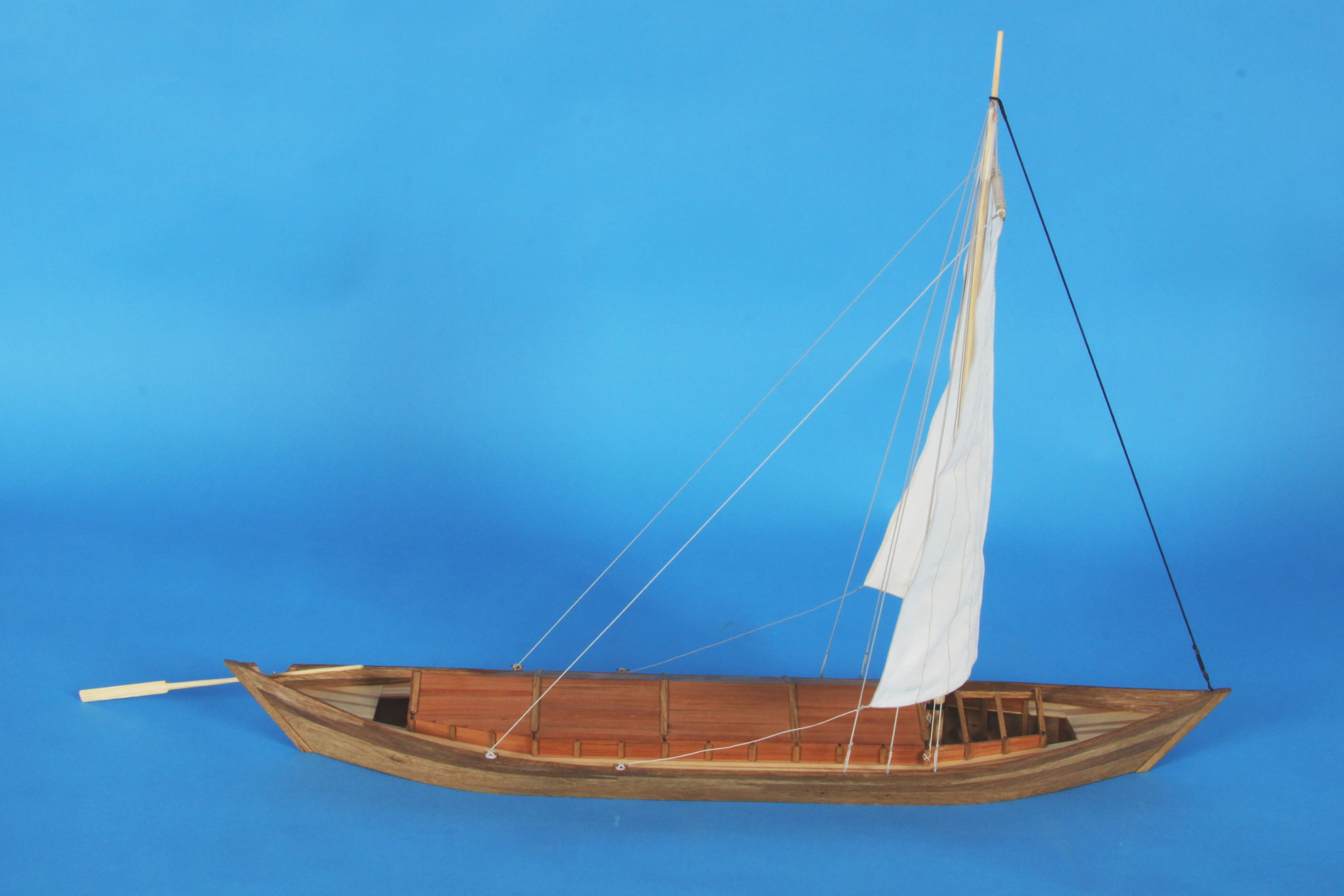 Model of WICINA (old type of river ship, used on Neman). Exhibit in National Maritime Museum in Gdańsk, Poland.